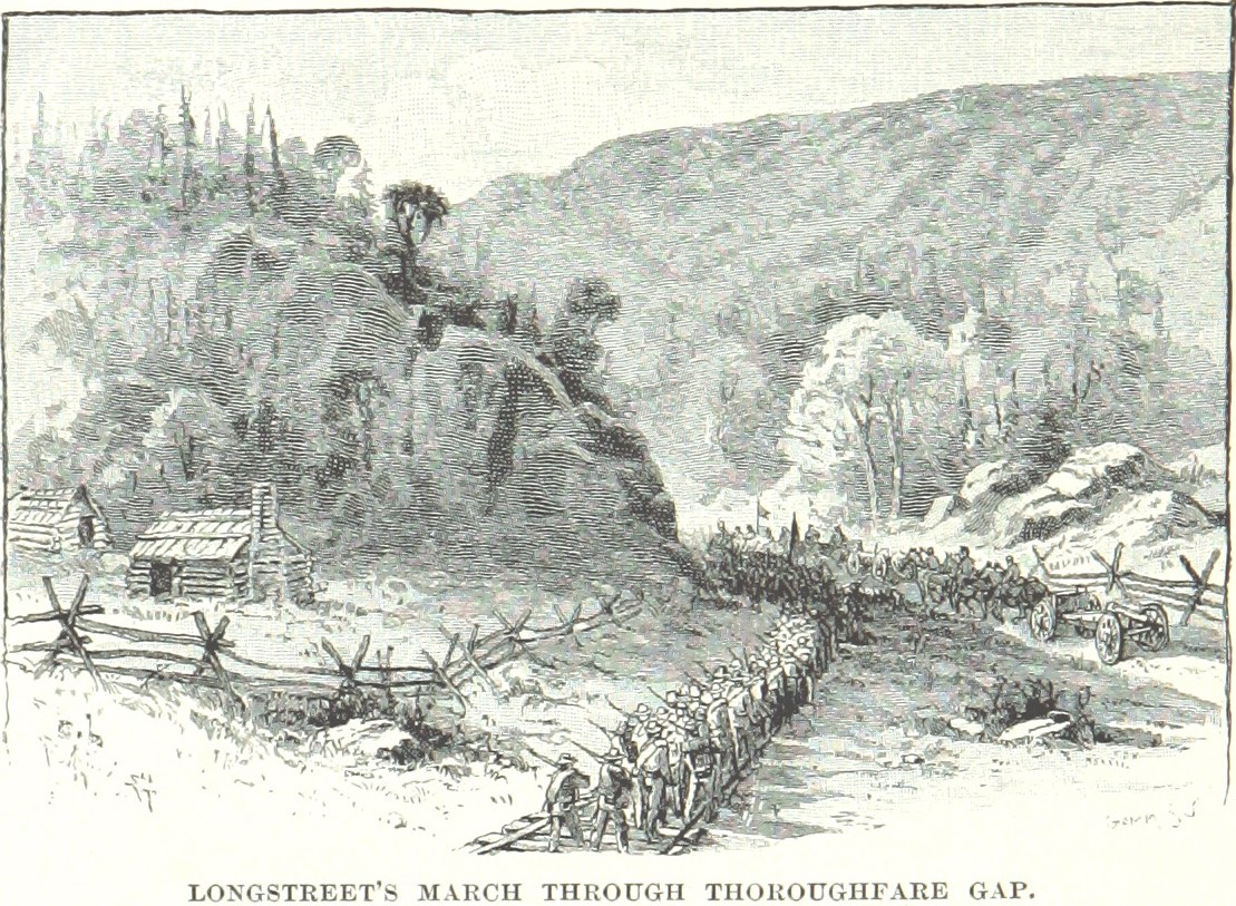 General Longstreet's troops march through Thoroughfare Gap. They would go on to win the Battle of Thoroughfare Gap on 28 August 1862.